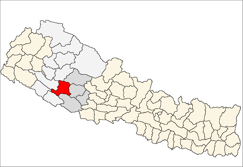 FrenchCarte de localisation dudistrict de Salyan(wp-FR),au Népal (wp-FR).EnglishLocation map ofSalyan District(wp-EN),in Nepal (wp-EN).